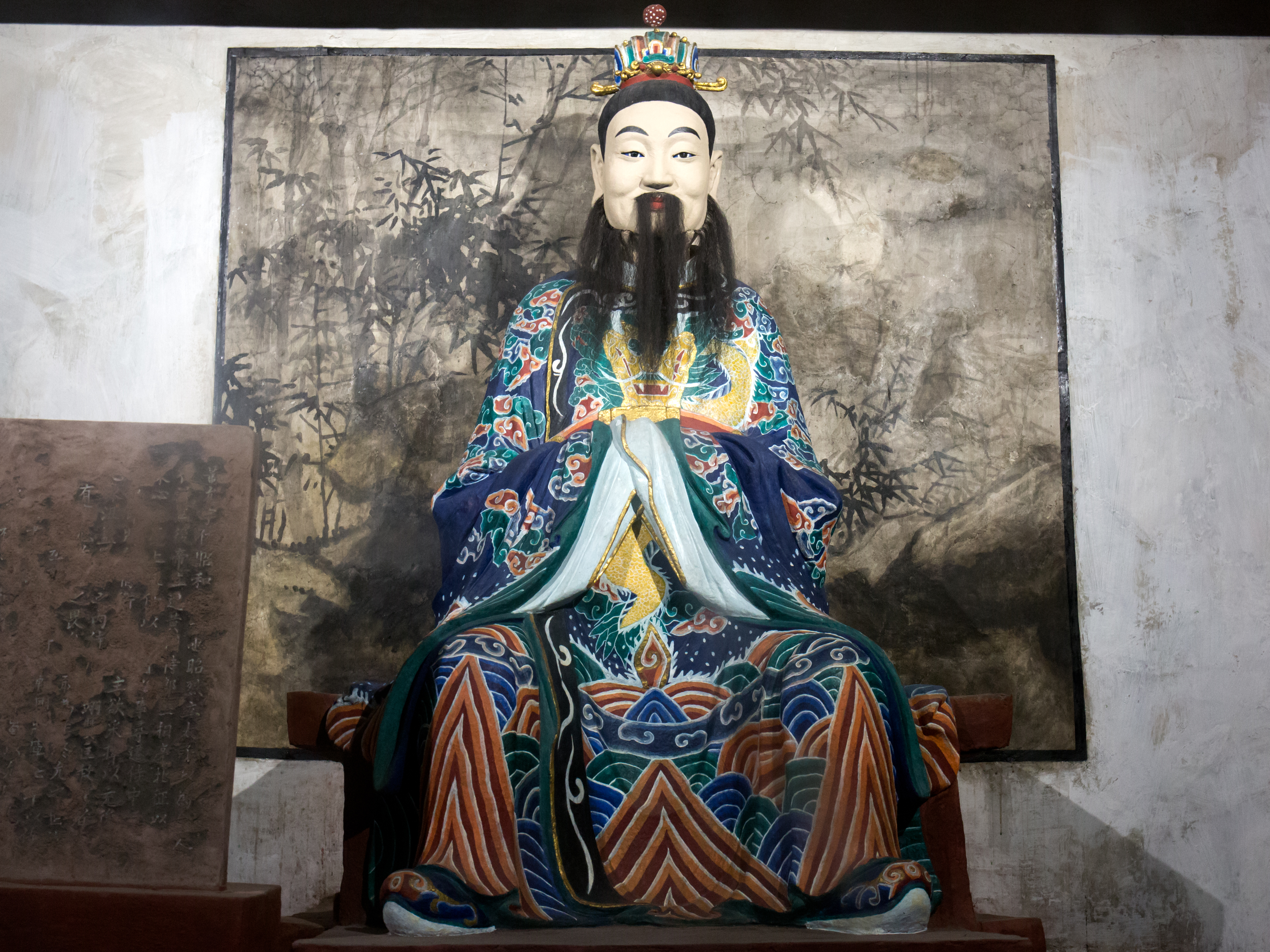 Dong Yun (董允)